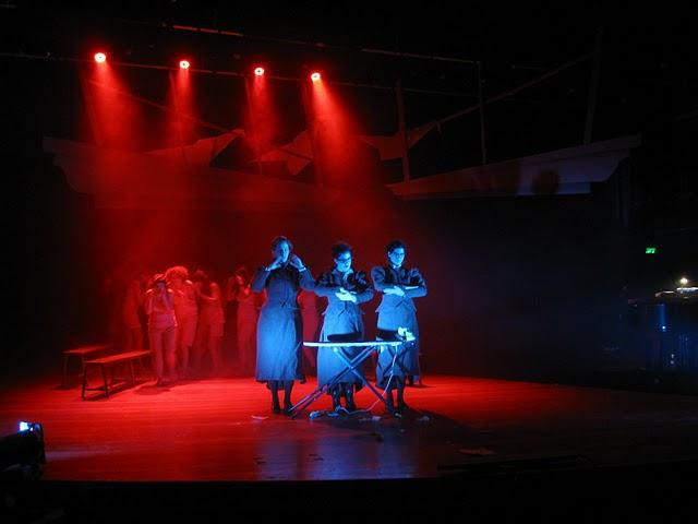 "Dido and Aeneas" by Danny Erlich. Lighting designer: Ziv Voloshin.